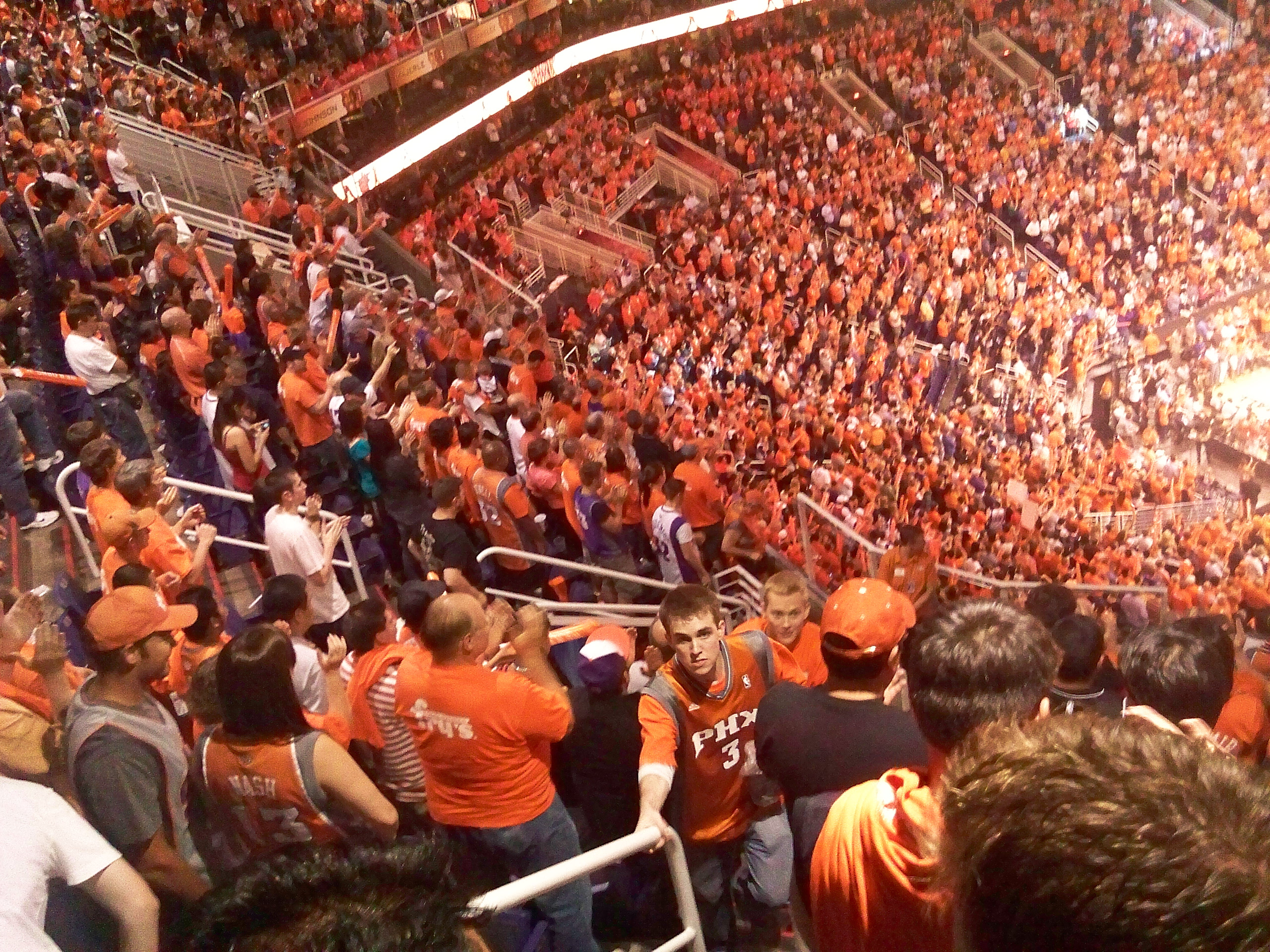 R U ORNG? A horde of raging Planet Orange fans cheer on the Phoenix Suns to victory over the San Antonio Spurs, 111-102, in the first game of their second round NBA basketball playoff series. Fans were treated to stellar performances from Steve Nash, Amare Stoudemire, and Jason Richardson. In large